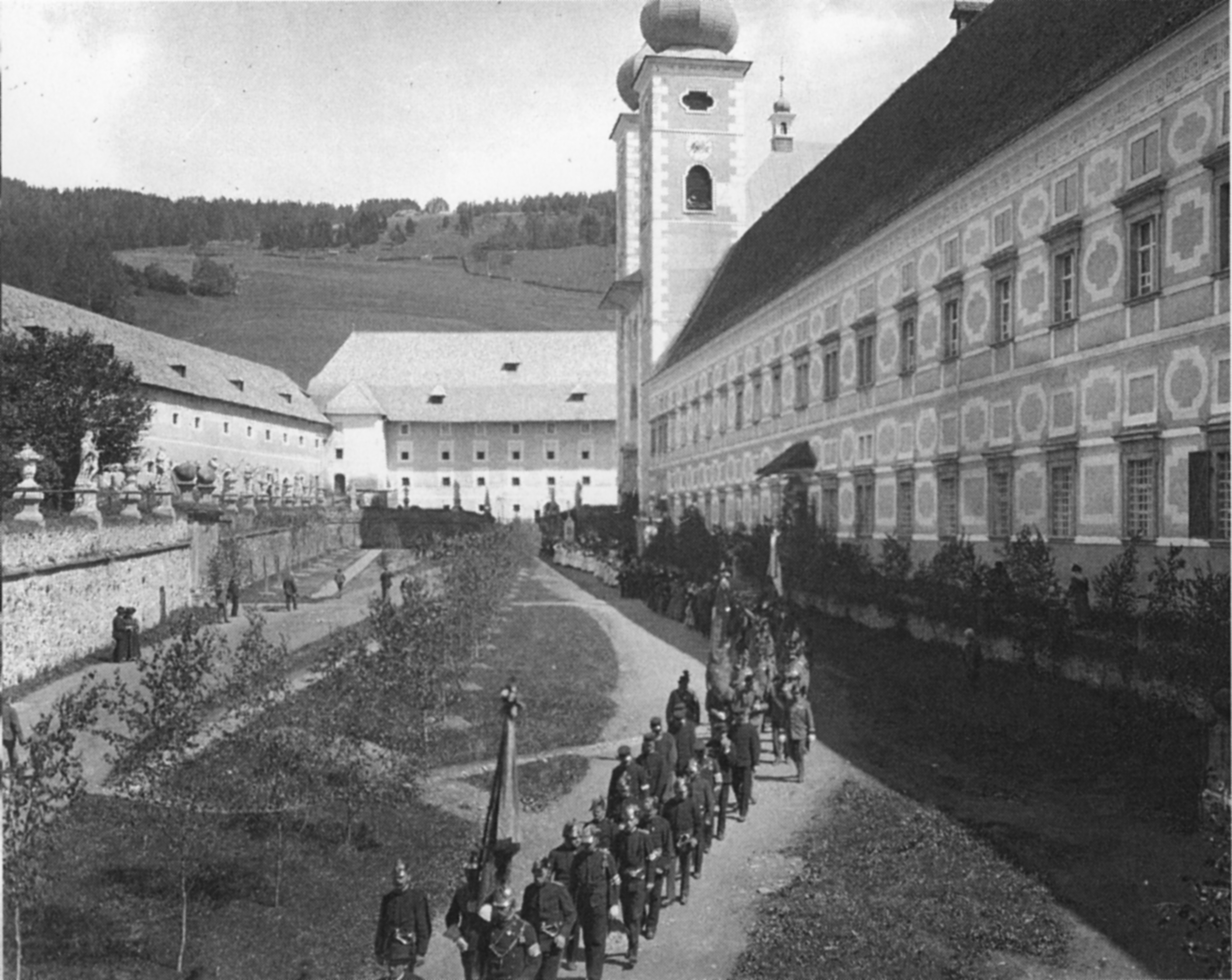 Petschar, Friedlmeier, Steiermark in alten Fotografien, Ueberreuther Verlag Wien. Scanprojekt Community Projektbudget 2012 This scan or this PDF-file was created within the GLAM-project Bookscanning, supported by Wikimedia Germany and Wikimedia Austria as a part of the community-project to capture books, documents and pictures which are not eligible to copyright or for which the copyright has expired. This document describes or depicts an object which is located in Austria today. Texts are written German language. Send requests for uncompressed scans to Hubertl. This work is in the public domain in its country of origin and other countries and areas where the copyright term is the author's life plus 100 years or less. You must also include a United States public domain tag to indicate why this work is in the public domain in the United States. This file has been identified as being free of known restrictions under copyright law, including all related and neighboring rights.